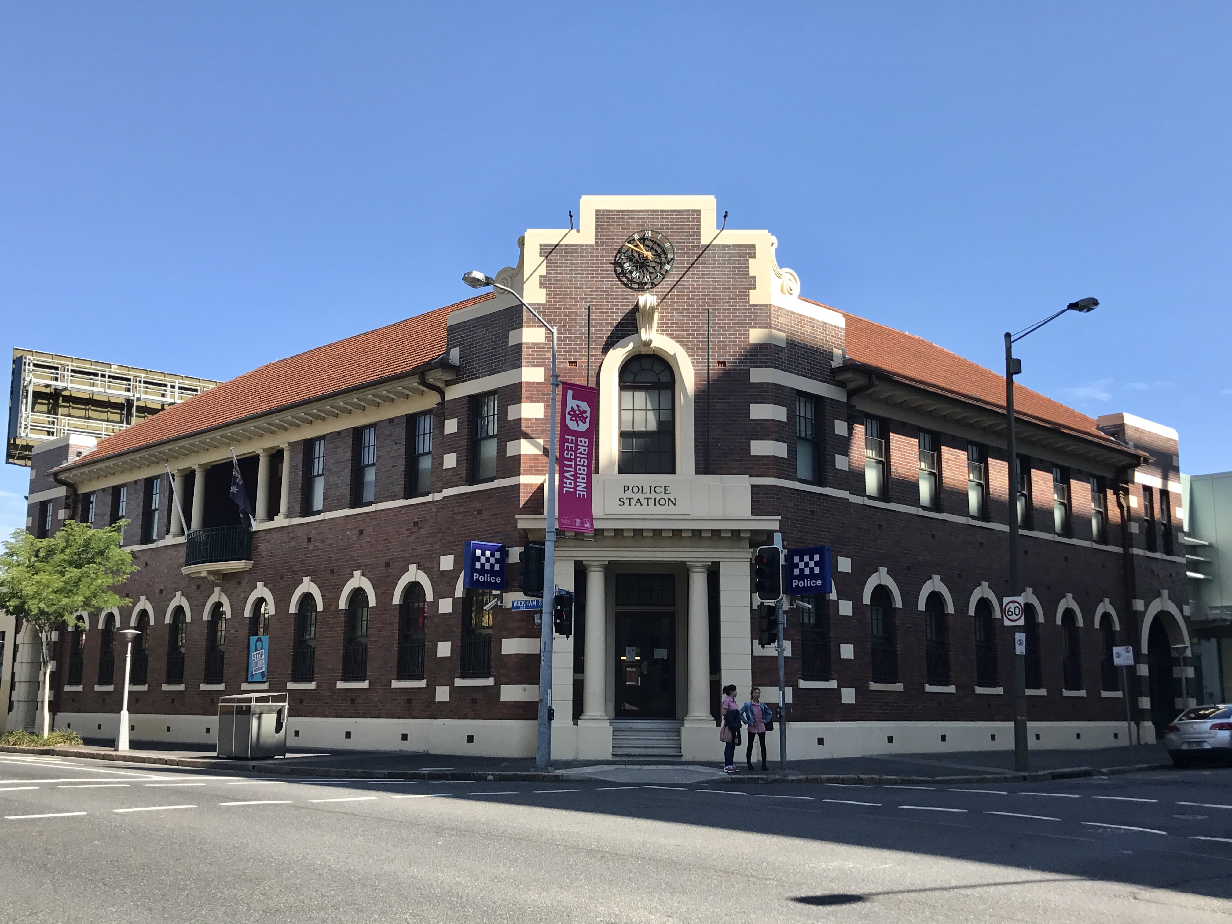 Fortitude Valley Police Station, Brisbane